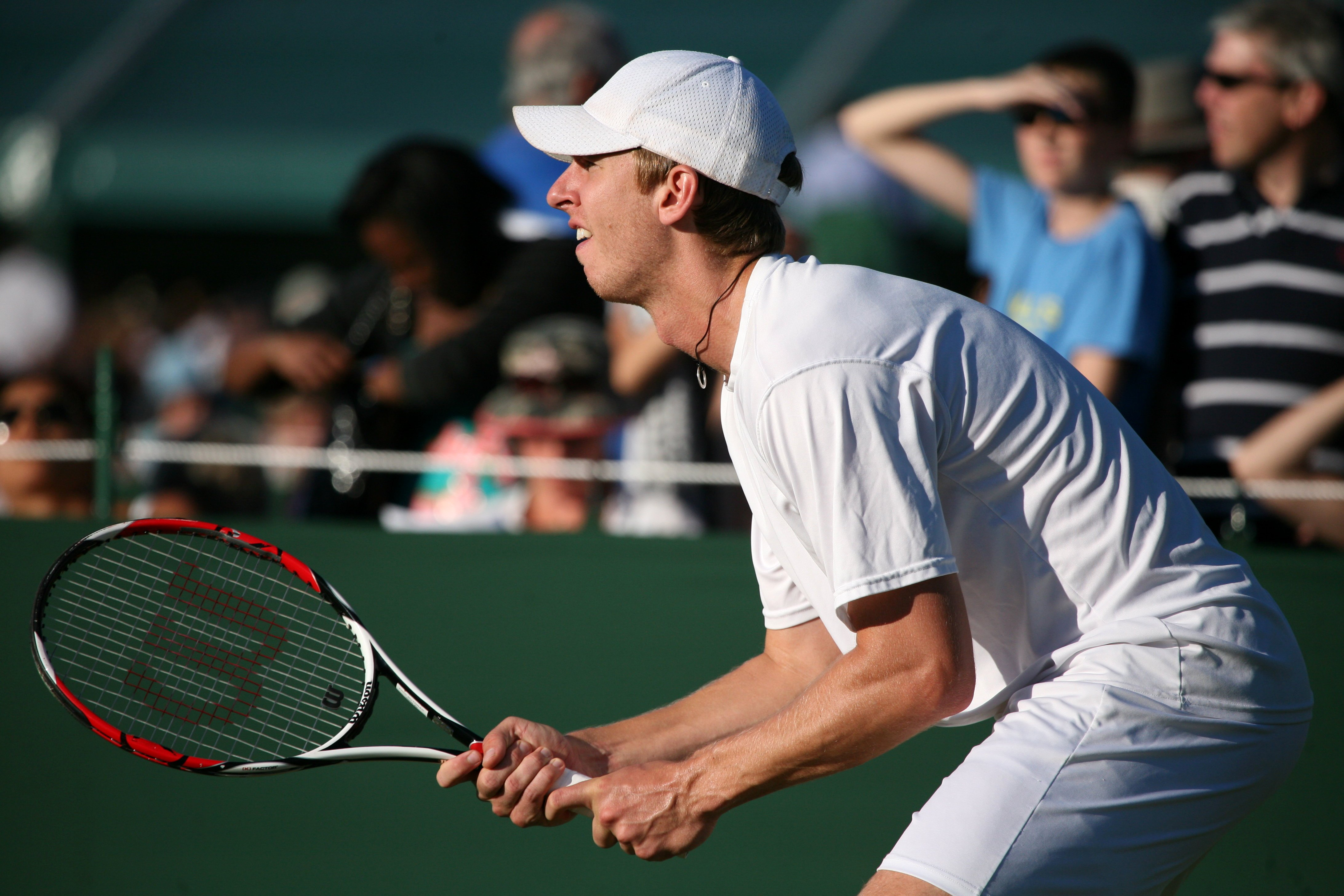 Eric Butorac and partner Scott Lipsky (unseen) against Mariusz Fyrstenberg and Marcin Matkowski in the 2009 Wimbledon Championships first round